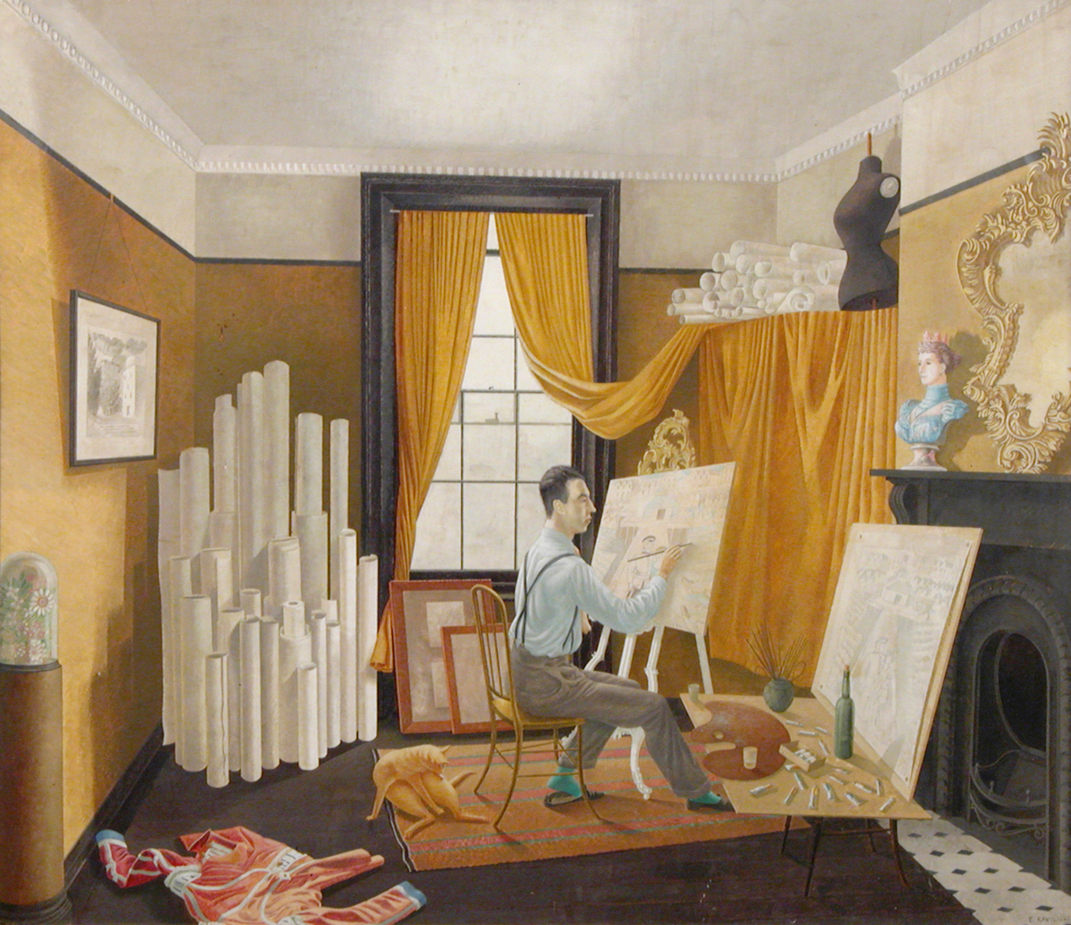 Painting of Edward Bawden by Eric Ravilious. Tempera on board, 79 x 92 cm. In the collection of the Royal College of Art.